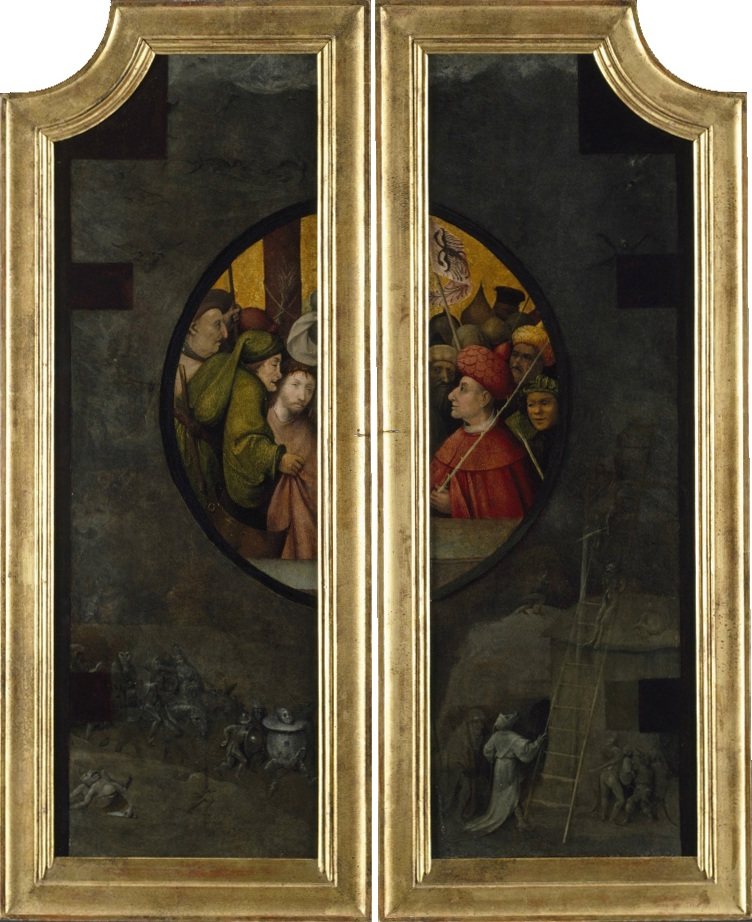 Christ before Pilate after the Flagellation, surrounded by scenes with flying demons and a procession of fantastic figures. Exterior of a triptych depicting the Adoration of the Magi. See File:Follower of Hieronymus Bosch - Adoration of the Magi - Upton House (open).jpg for the interior.